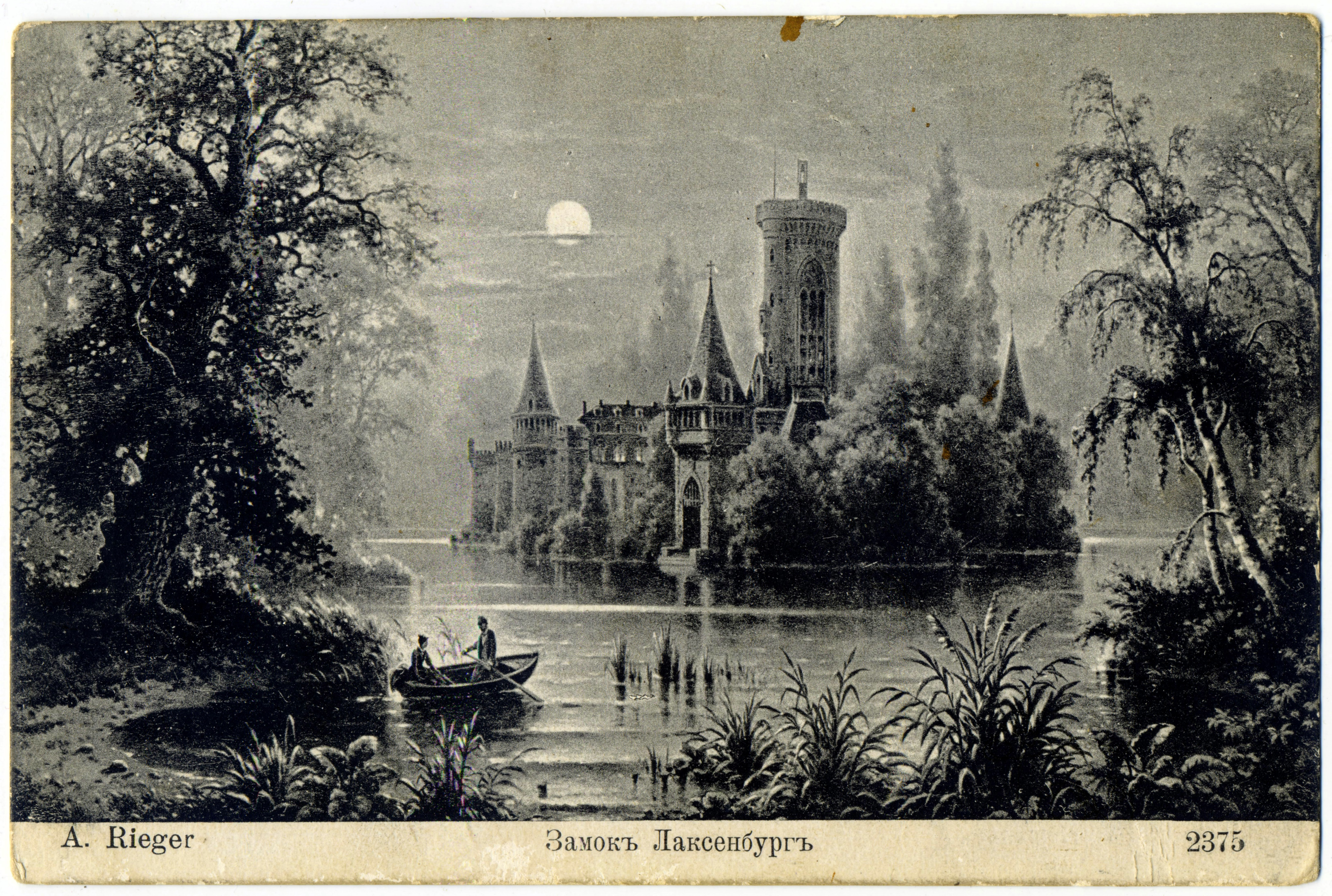 Summer Evening in Laxenburg